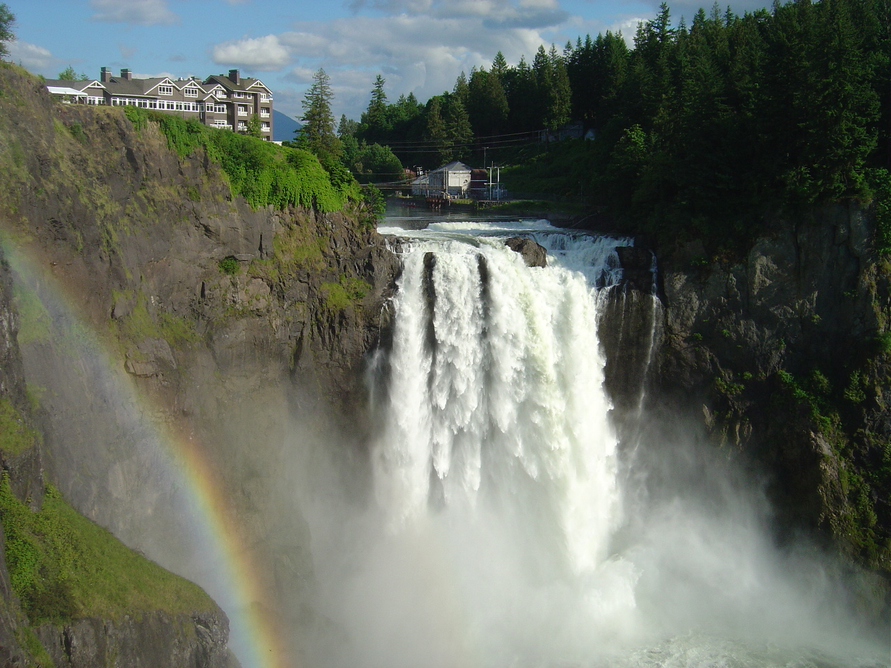 A picture of Snoqualmie Falls in mid-June, with a rainbow in the spray